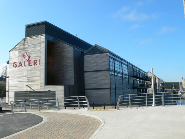 Y Galeri, Caernarfon Theatre, cinema, conference centre, art gallery - all rolled into one, near the Victoria Dock in Caernarfon.